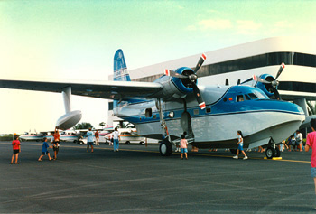 Grumman Albatross was Finch's spare parts plane that traveled with her on the flight around the world in 1997.